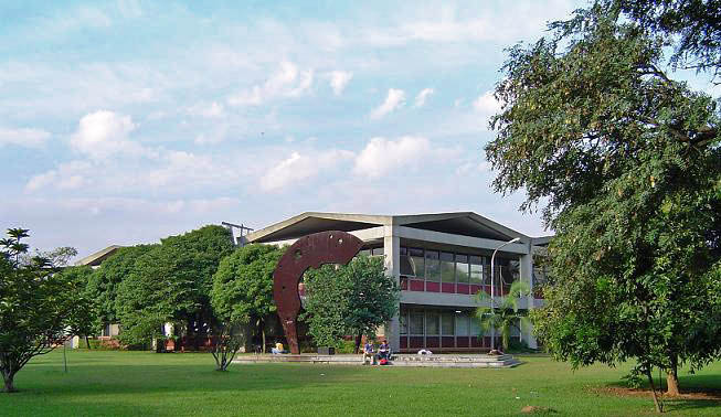 Civil Engineering building at Polytechnic School, University of São Paulo, Brazil.